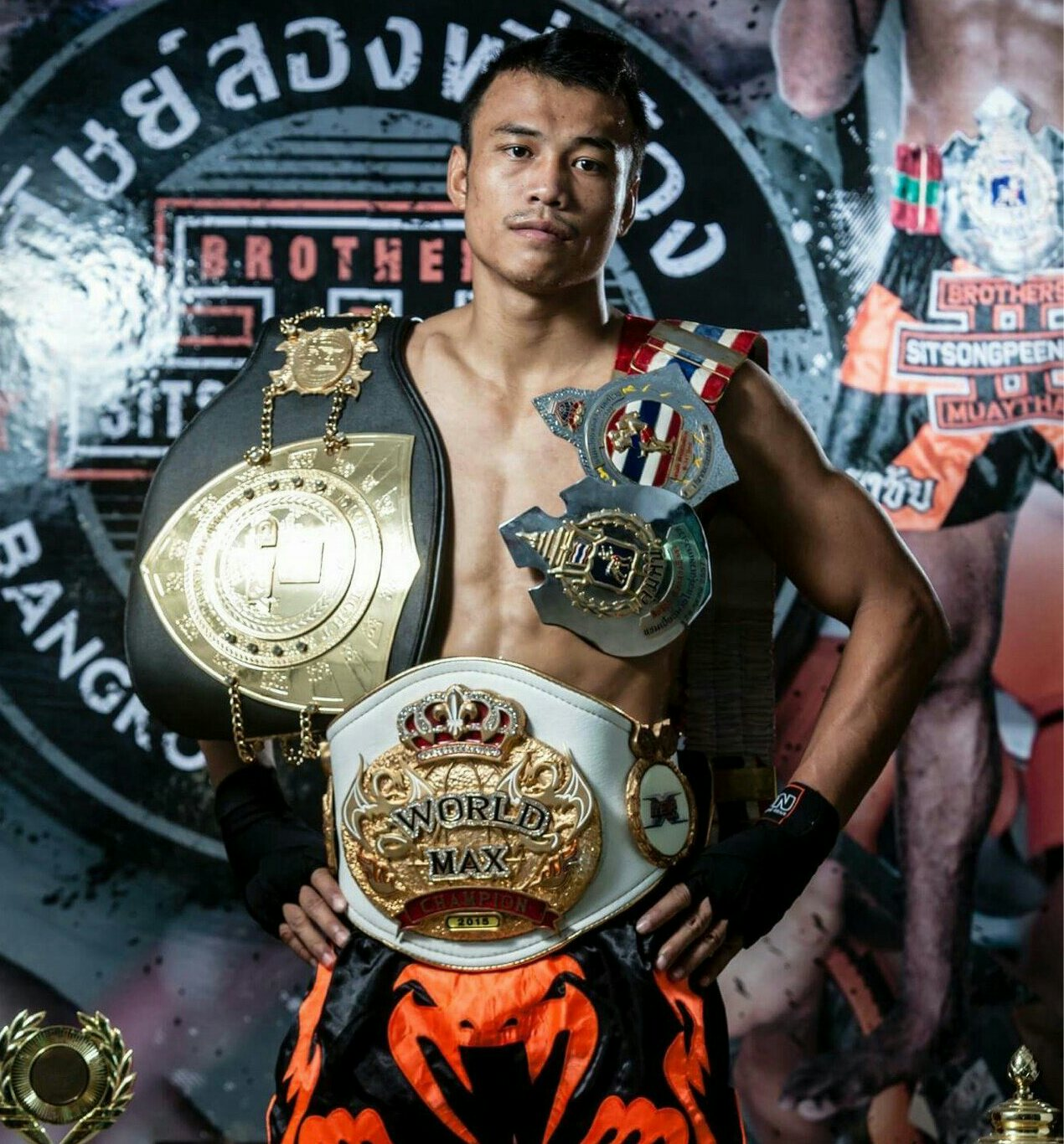 Sitthichai with belts